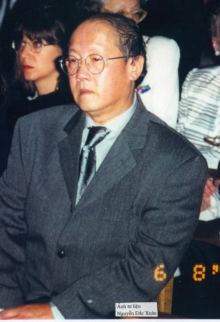 Bảo Thắng, former head of the Nguyen Dynasty